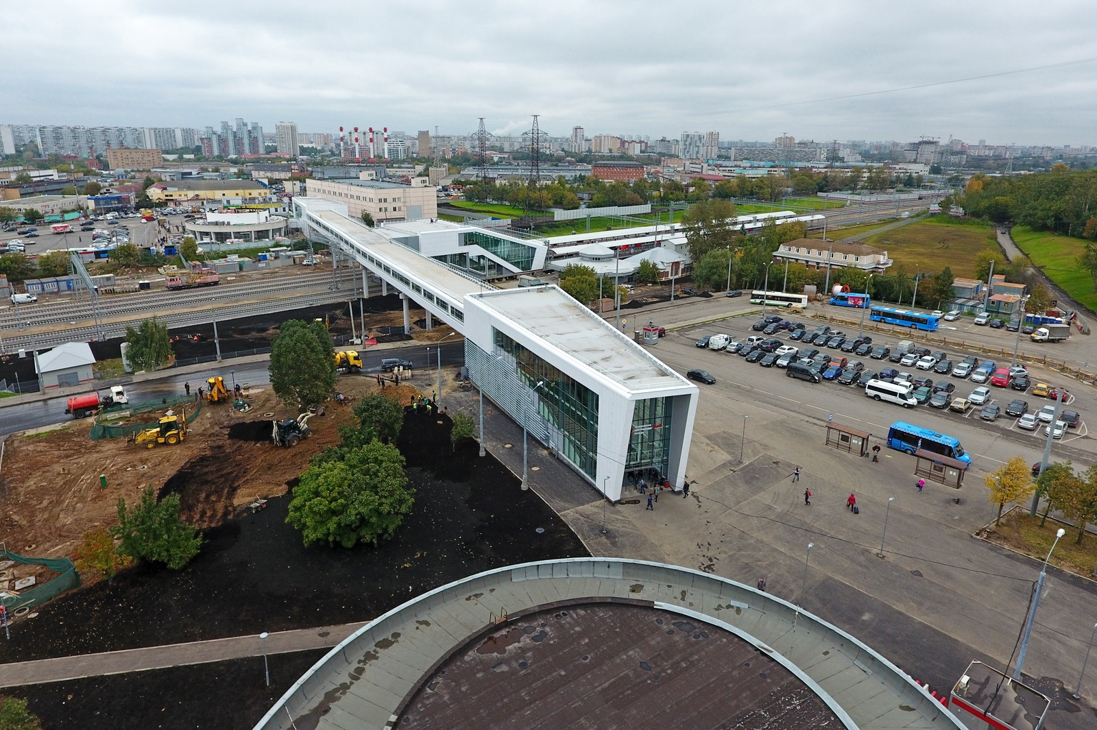 Vladykino Transport Hub in Moscow Central Circle